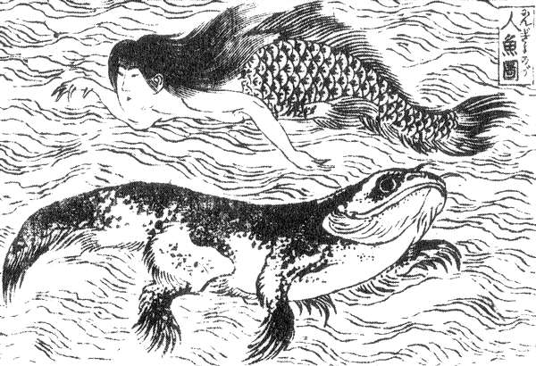 Ningyo (人魚図, Mermaid) from the Chinsetsu Yumihari-zuki (椿説弓張月)